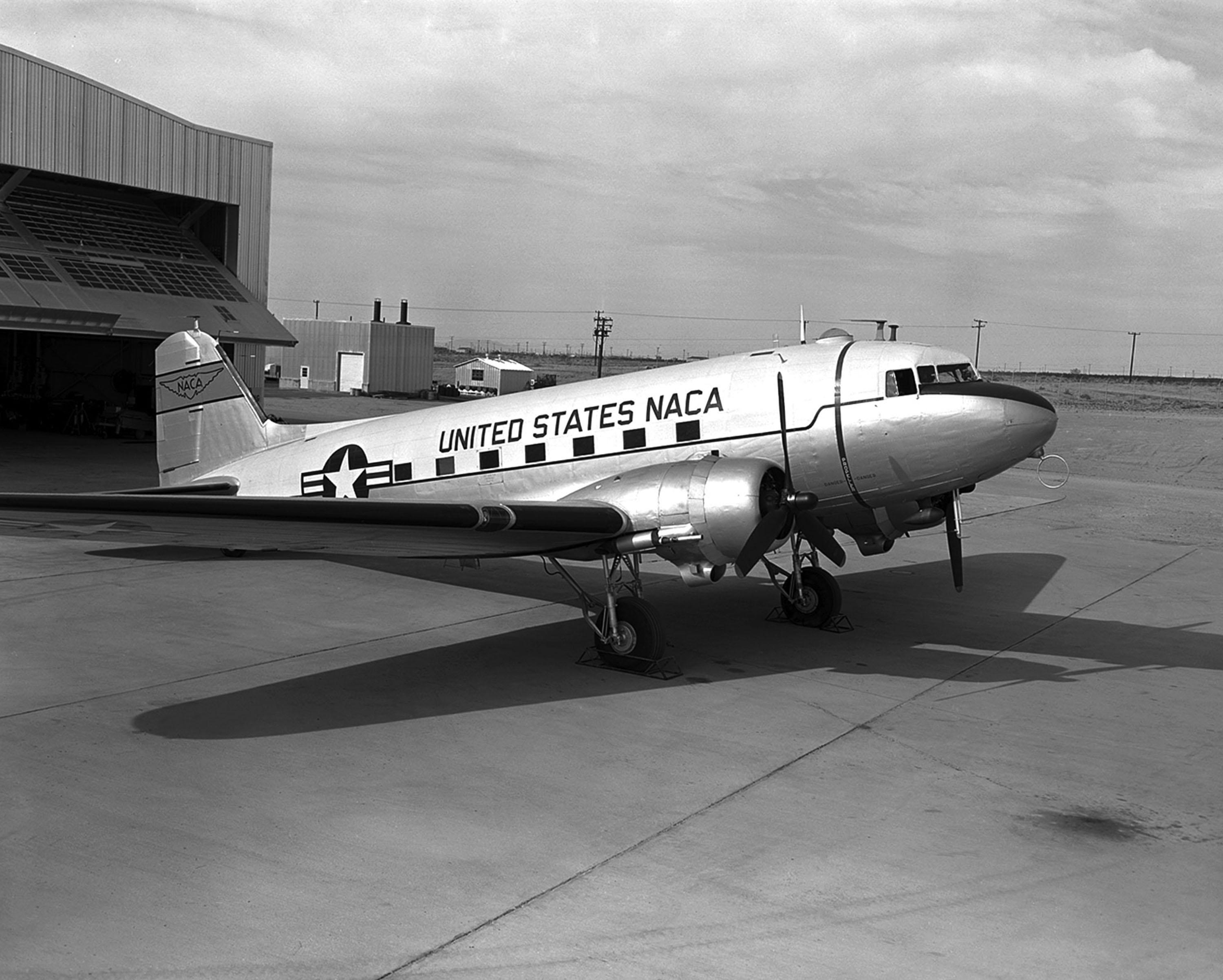 NASA Douglas R4D Skytrain used to tow M2-F1 experimental glider.